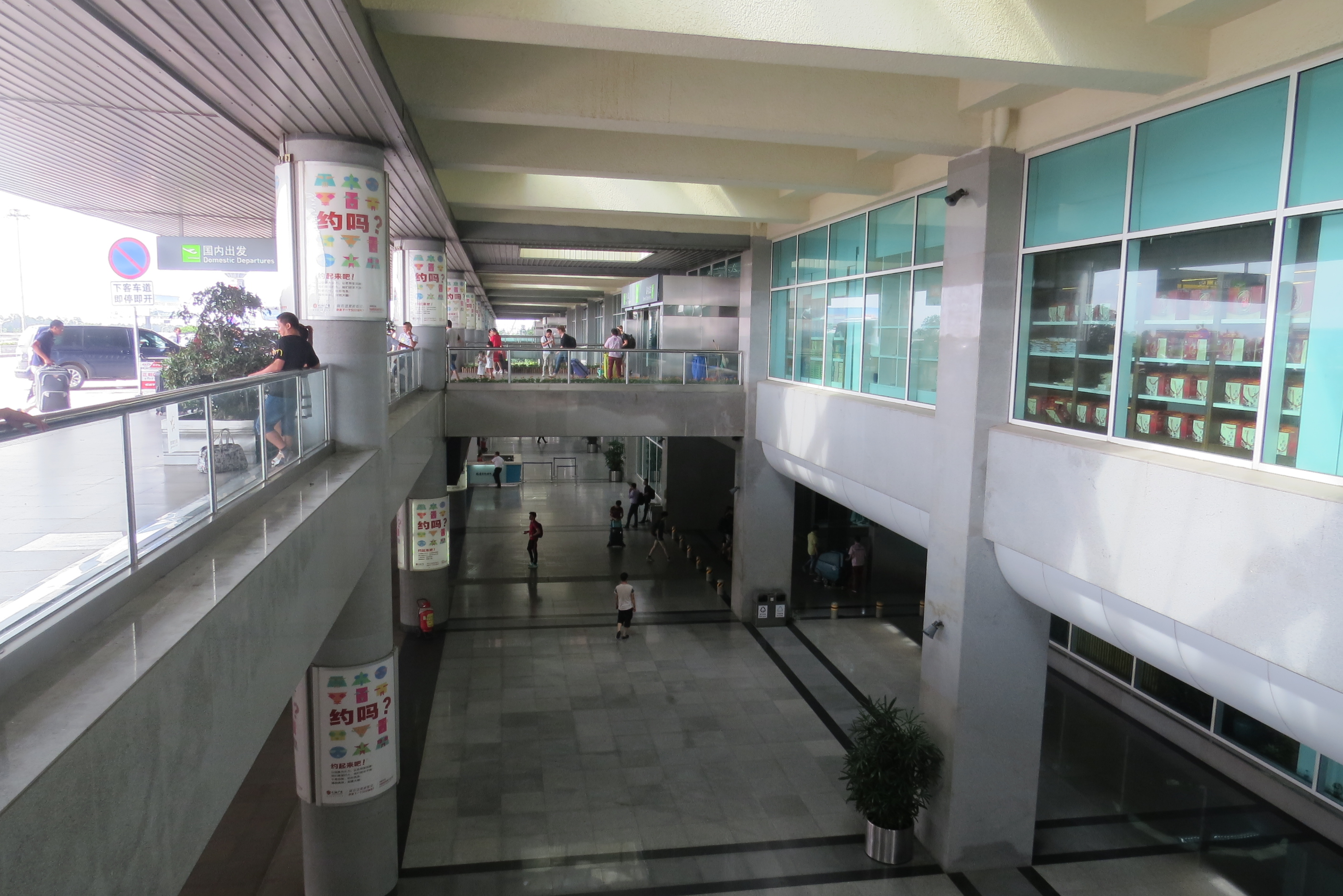 Dep and Arr.